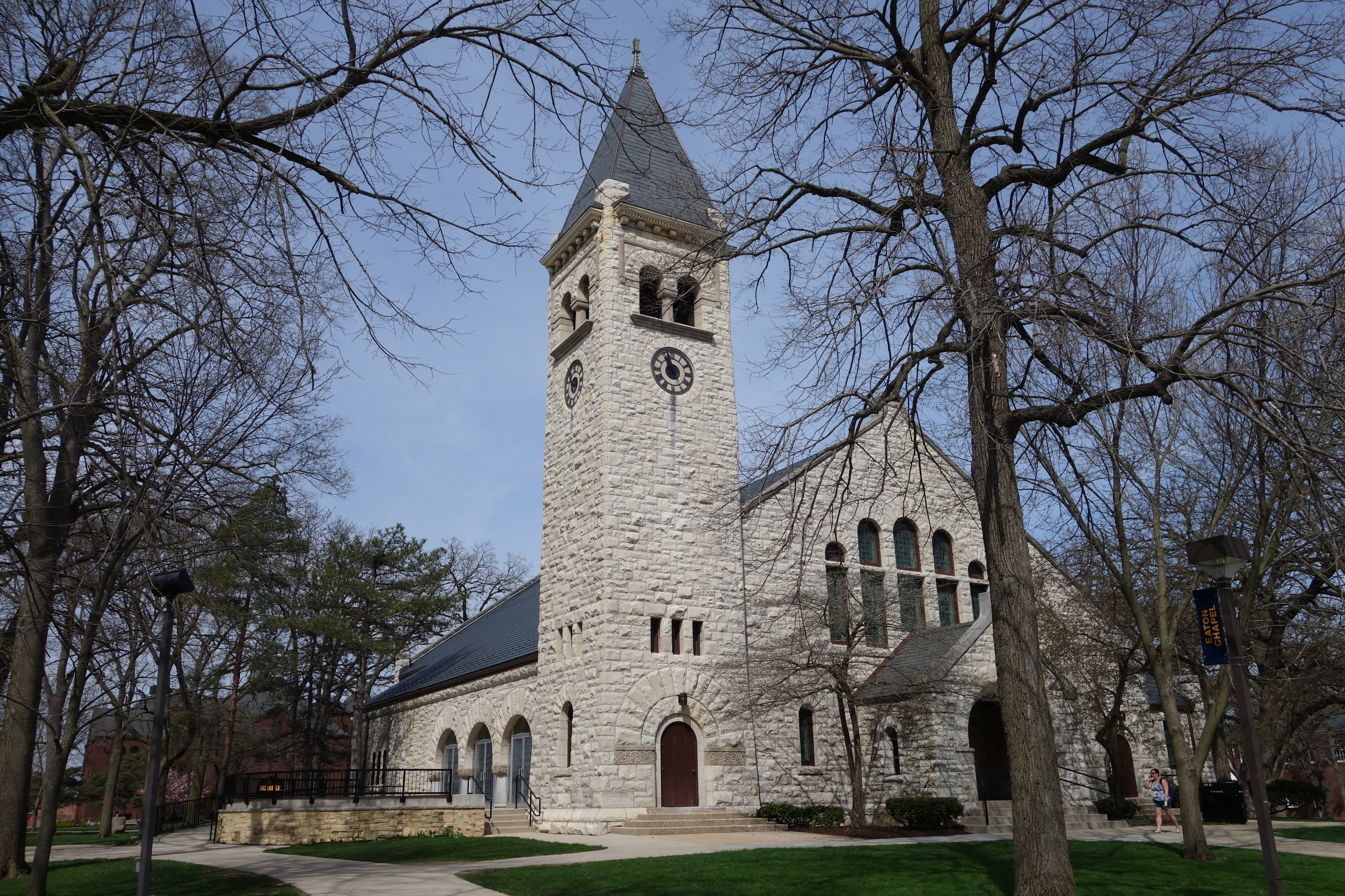 A view of Eaton Chapel, April 2016.